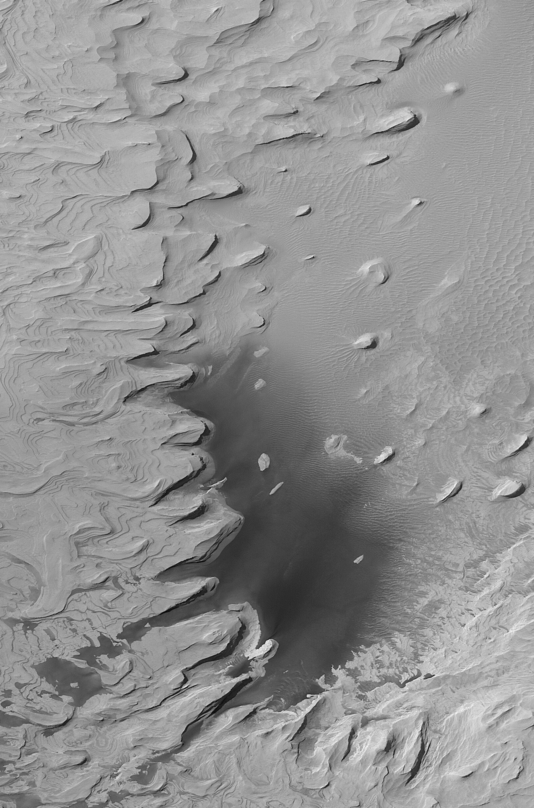 One of the earliest results of the Mars Global Surveyor (MGS) Mars Orbiter Camera (MOC) investigation shortly after the spacecraft began to orbit Mars in 1997 was the discovery of layered rock outcrops reaching deep down into the Martian crust in the walls of the Valles Marineris. Since that time, thousands of MOC images have revealed layered rock in a variety of settings--crater floors, canyon interiors, and scarps exposed by faulting and pitting. This spectacular example taken by MOC is found on the floor of an impact crater located near the equator in north-western Schiaparelli Basin (0.15°N, 345.6°W). The image covers an area approximately 3 km across and is illuminated by sunlight from the upper left. Layers of uniform thickness and appearance suggest that these materials are ancient sediments, perhaps deposited in water, or perhaps deposited by wind. Wind has subsequently eroded and exposed the layers. Dark drifts of sand occur at the lower centre of the image, and lighter-toned windblown ripples dominate the centre and upper right.